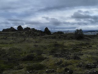 Galgahraun, near Reykjavík, Iceland